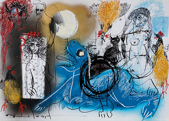 From the art serie "Thoughts in blue vacuum". 2013 Mixed technique on paper. A3